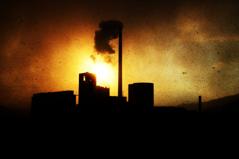 Sunset at the cement factory during a snow storm. Juracement Cement Factory, Wildegg, Switzerland.